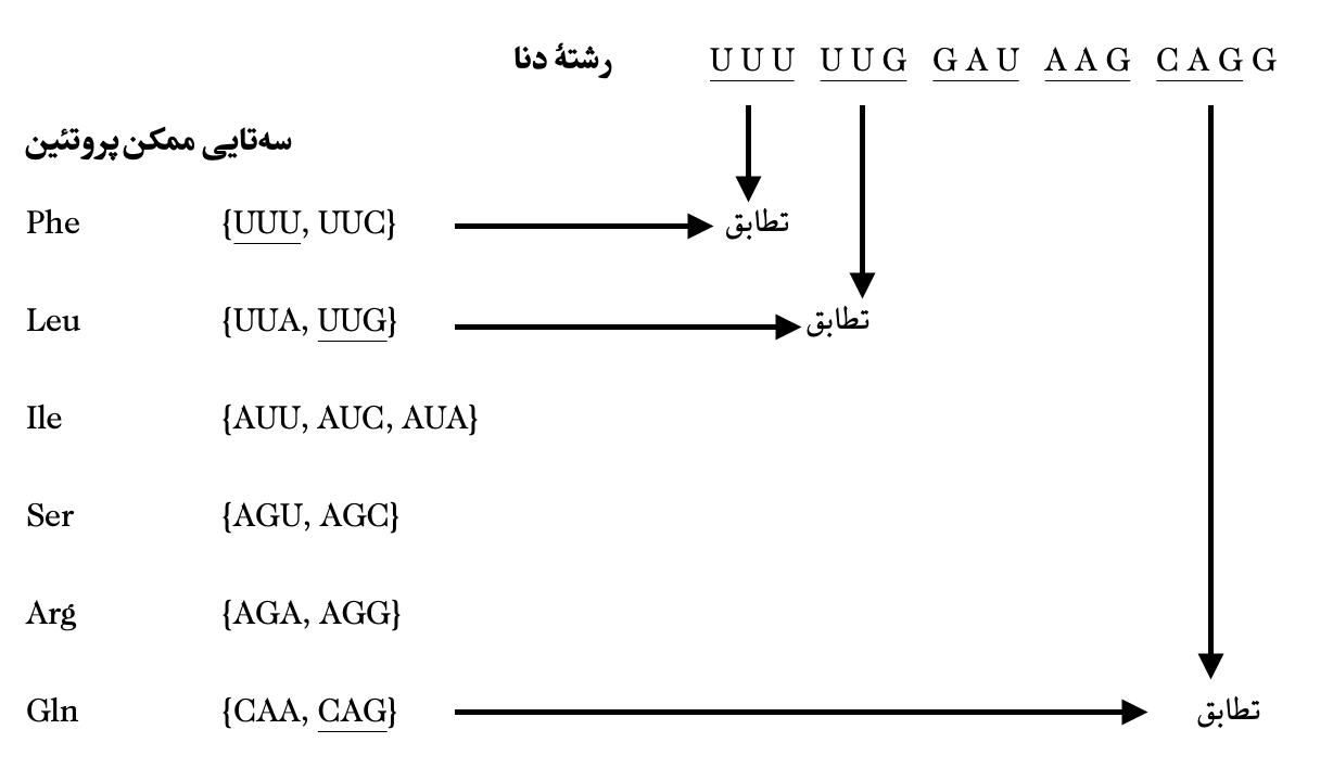 هم‌ترازسازی بدون در نظر گرفتن جهش دگرقالب این خروجی را تولید می‌کند.